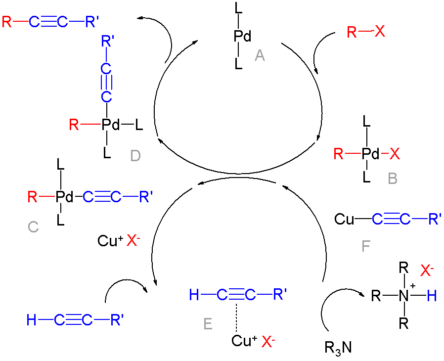 Sonogashira_coupling_mechanism File:Sonogashira coupling mechanism.svg is a vector version of this file. It should be used in place of this raster image when not inferior. File:Sonogashira coupling mechanism.png File:Sonogashira coupling mechanism.svg For more information, see Help:SVG.